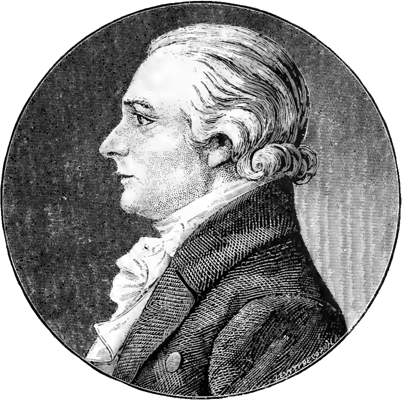 A version of the work is in the collection of the Philadelphia Museum of Art.